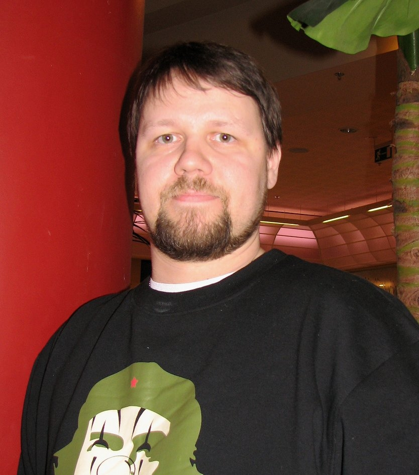 Henry Kõrvits alias G-Enka on the presentation of "Sound of Noise"